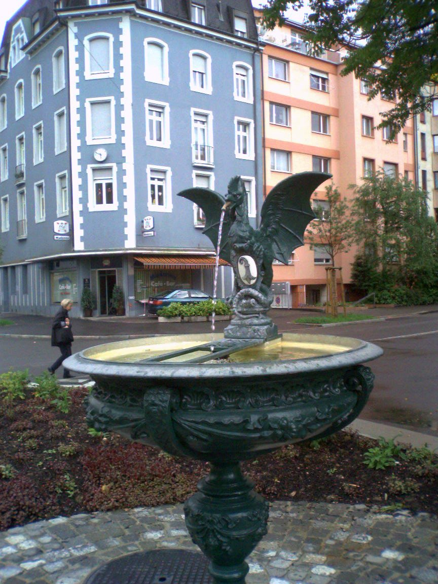 Water fountain in Basel (CH) representing a basilisk